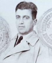 Portrait of Bulgarian and Jugoslav communist Metodi Shatorov